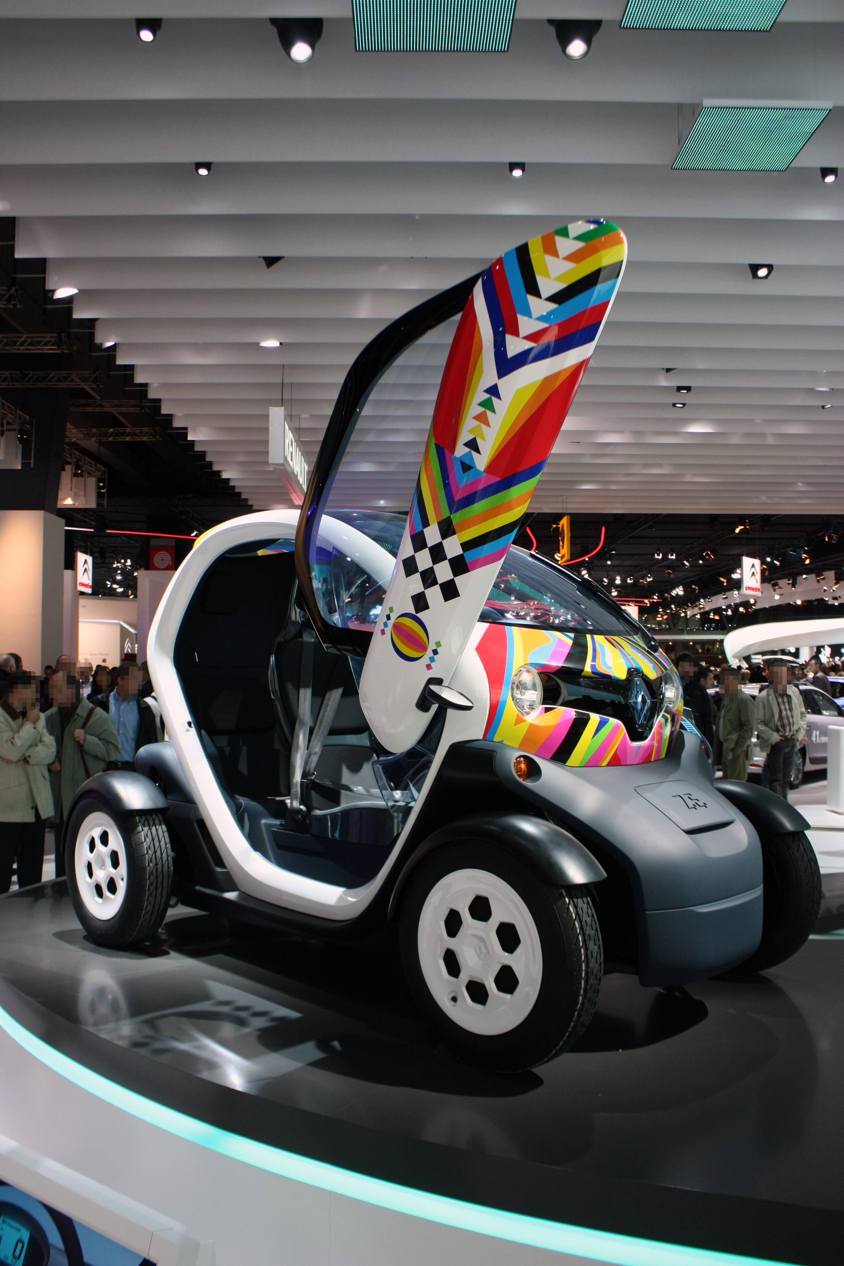 The Twizy Z.E. Concept is an electricity-powered car invented by Renault.